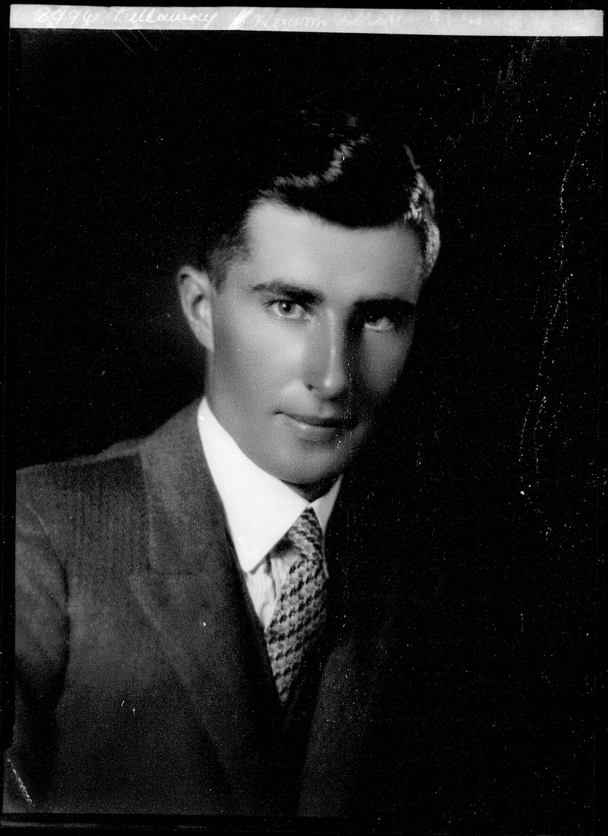 This photo is part of the Australian National Maritime Museum’s William Hall collection. If reproduced or distributed, this image should be clearly attributed to the collection of the Australian National Maritime Museum; and not be used for any commercial or for-profit purposes without the permission of the museum. For more information see our Flickr Commons Rights Statement. The Australian National Maritime Museum undertakes research and accepts public comments that enhance the information we hold about images in our collection. If you can identify a person, vessel or landmark, write the details in the Comments box below. Thank you for helping caption this important historical image. Object number: 00013194